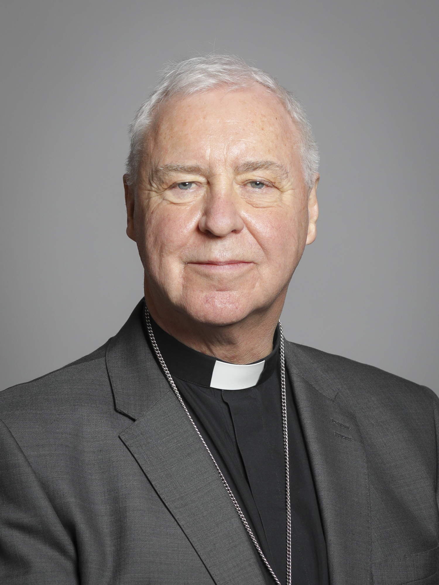 Official portrait of The Lord Bishop of Lincoln 3×4 portrait of The Lord Bishop of Lincoln